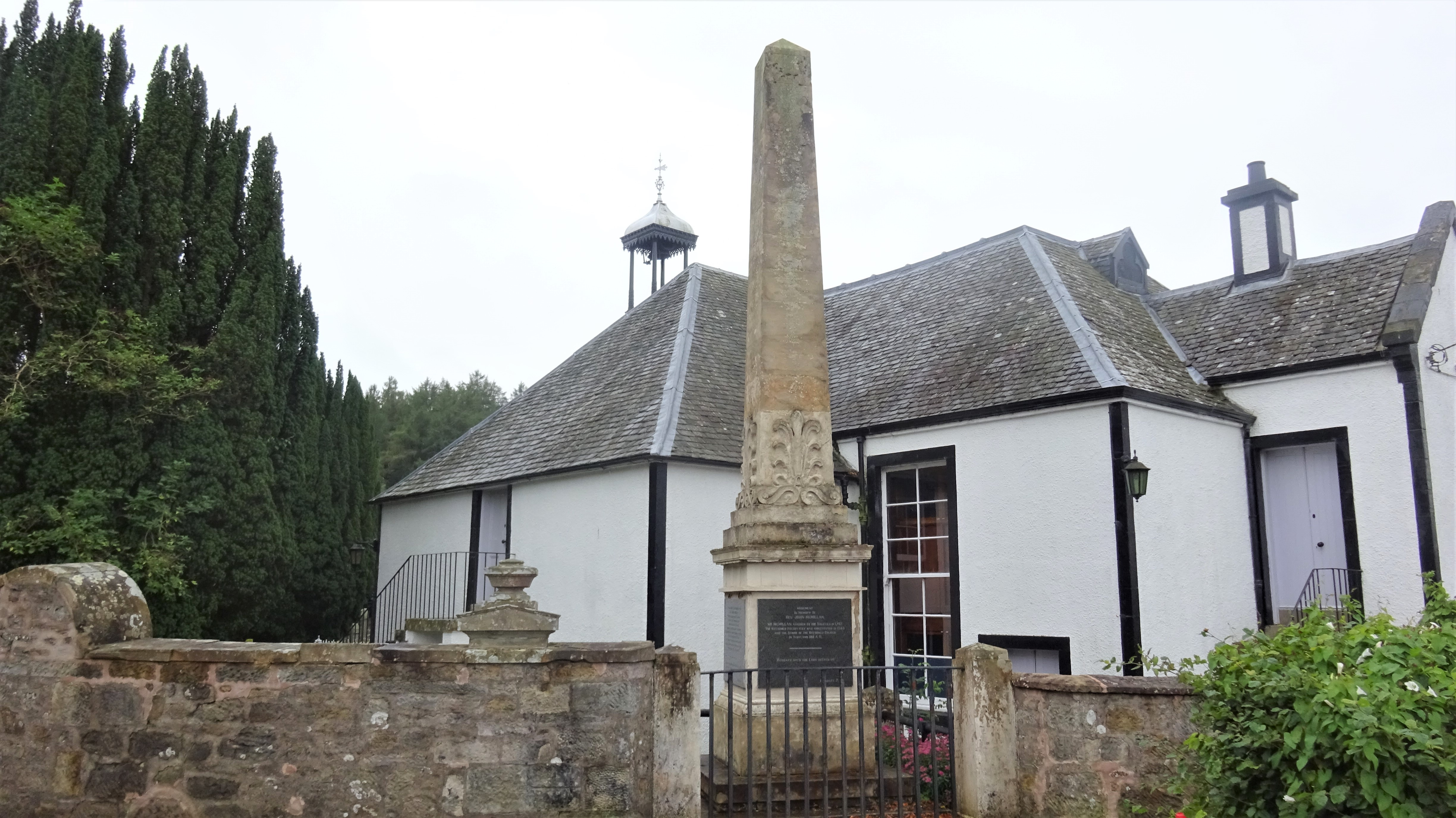 The village kirk, built in 1655, dedicated to Saint Serf, and may be built on the site of an early church founded by him. John M'Millan's memorial dominates the scene.